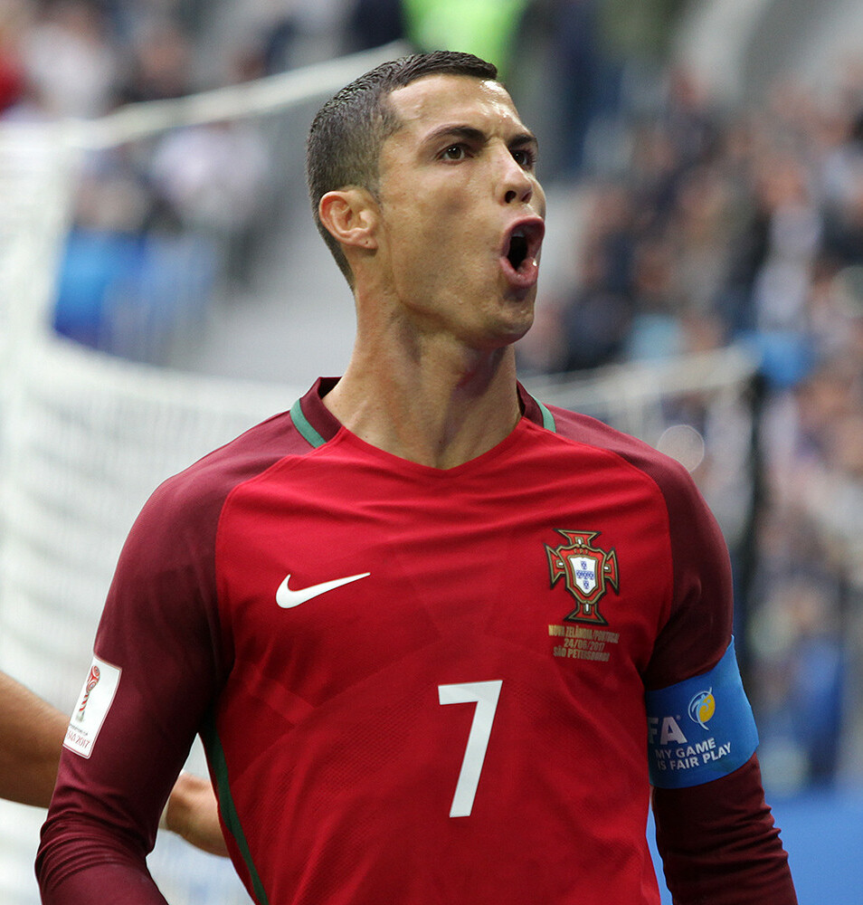 New Zealand VS. Portugal 0 - 4, 24 June 2017